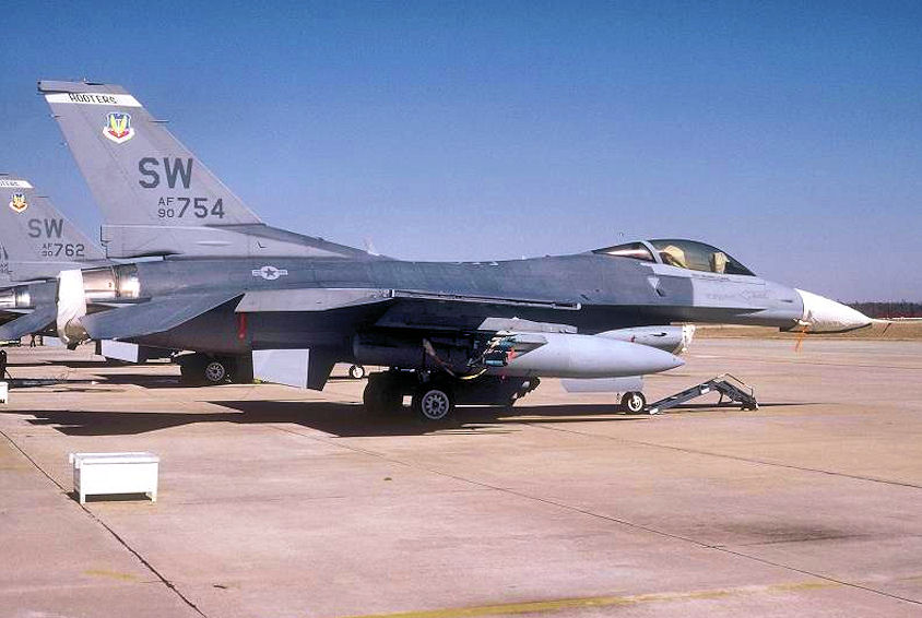 17th Fighter Squadron - General Dynamics F-16C Block 42J Fighting Falcon 90-754